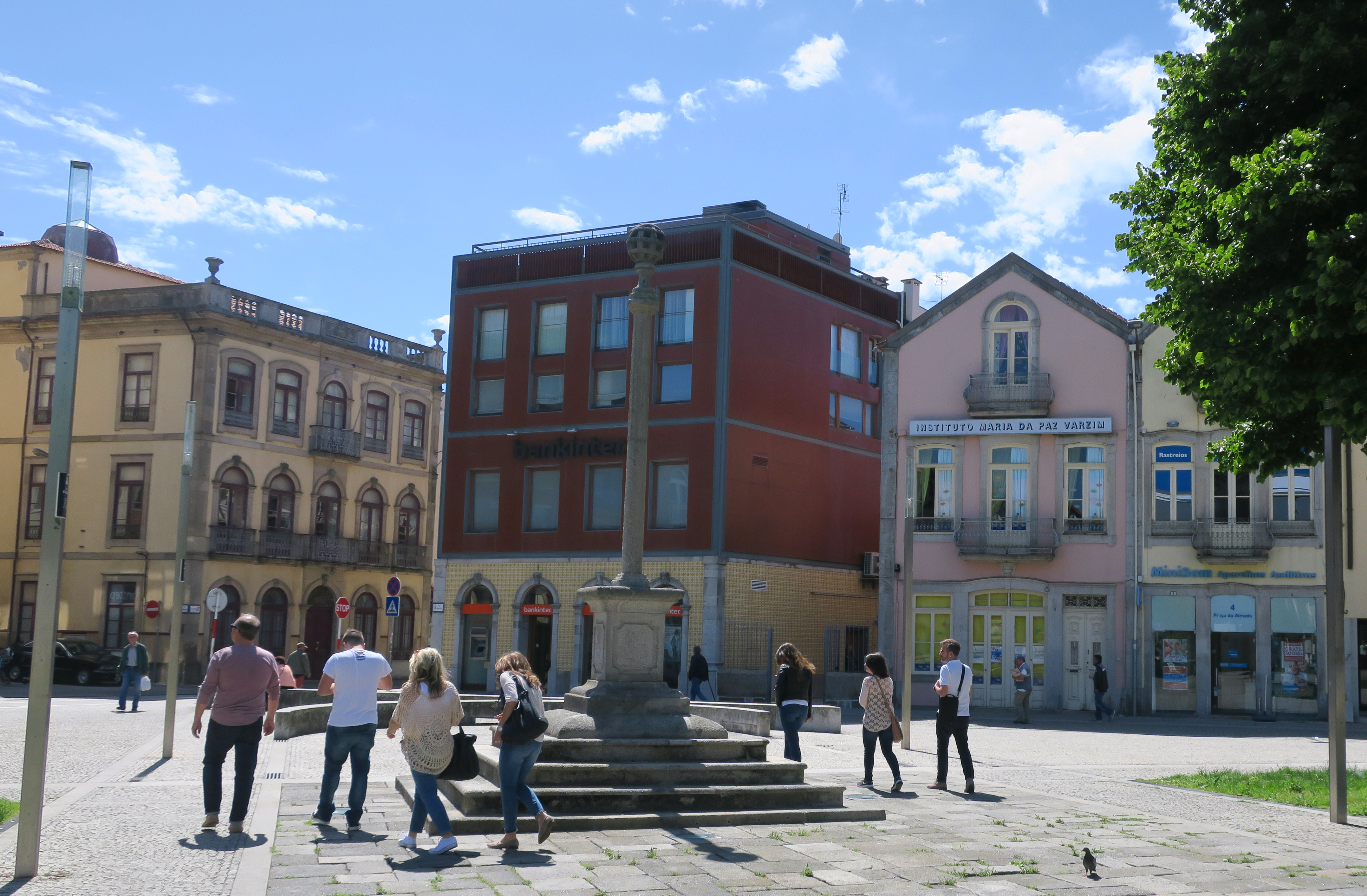 Pelourinho (16th century pillory), Praça do Almada, Portugal